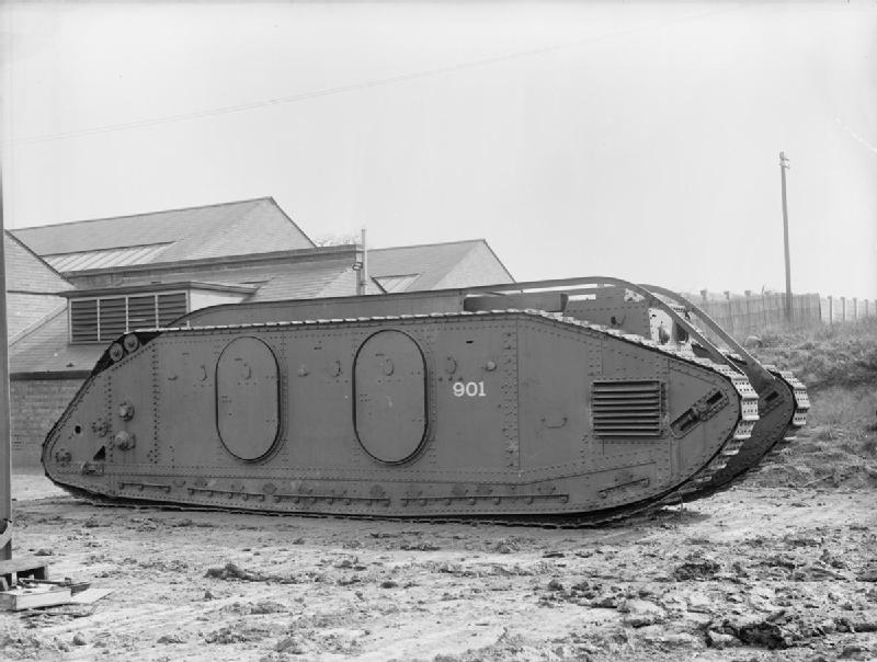 Photograph of a British Mark IX tank, an early armoured personnel carrier.